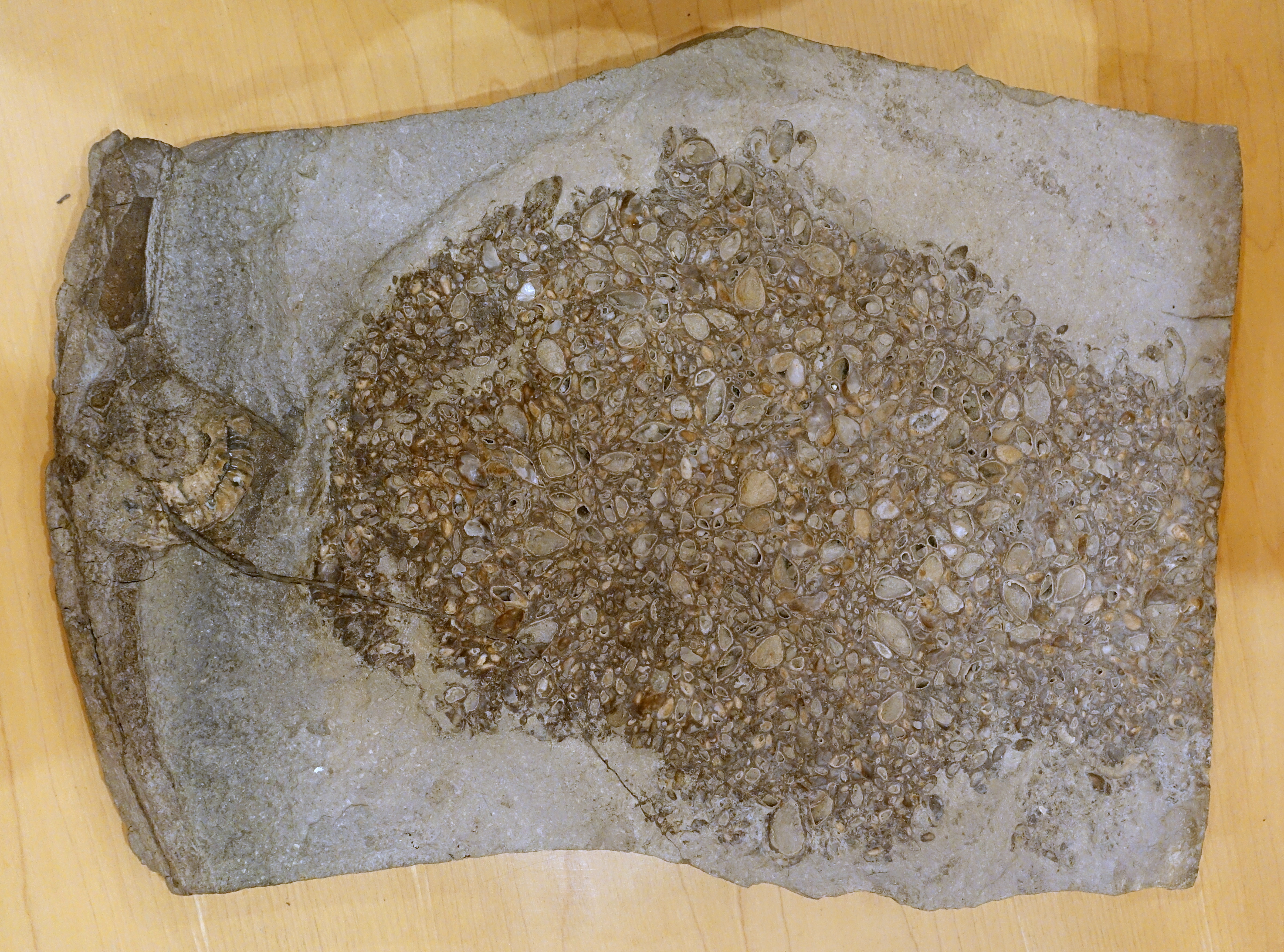 Exhibit in the Naturhistorisches Museum, Braunschweig, Germany.